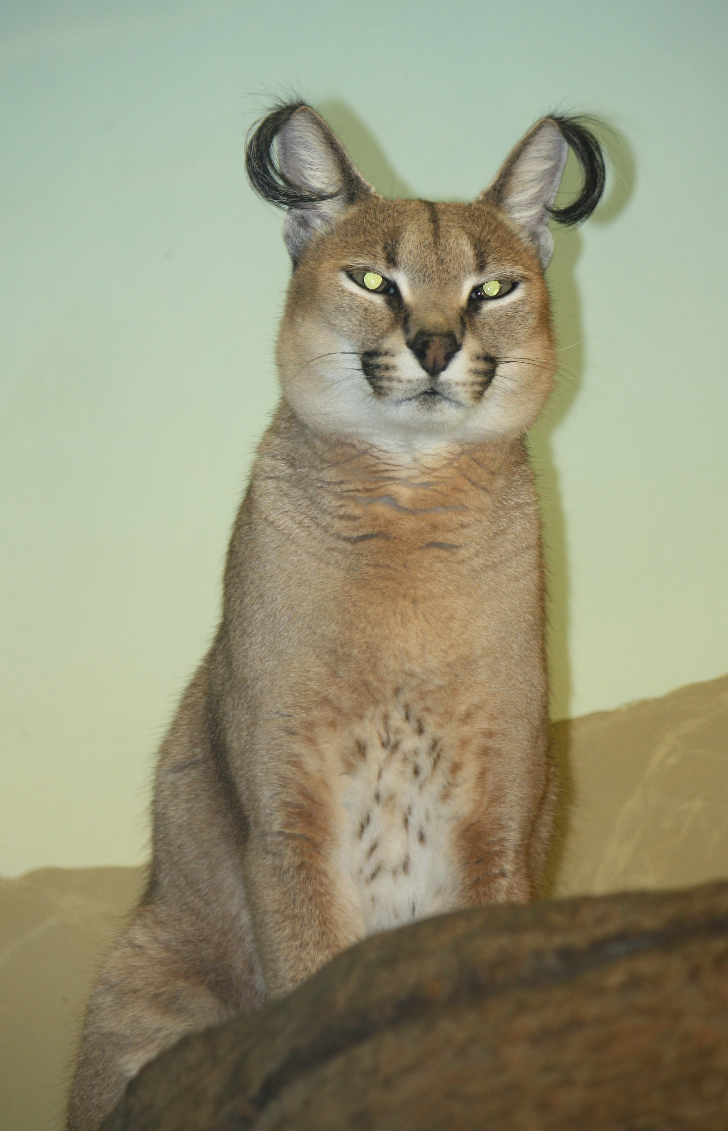 Caracal Caracal caracal at Cincinnati Zoo